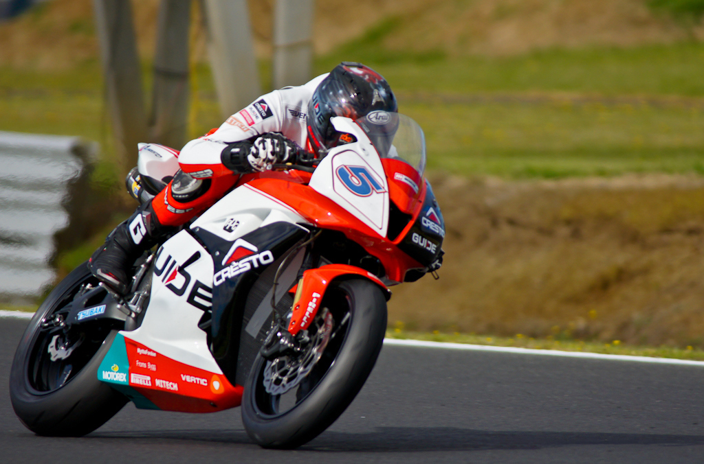 Alexander Lundh, Cresto Guide Racing - Honda CBR600RR in 2011 World Supersport Phillip Island round